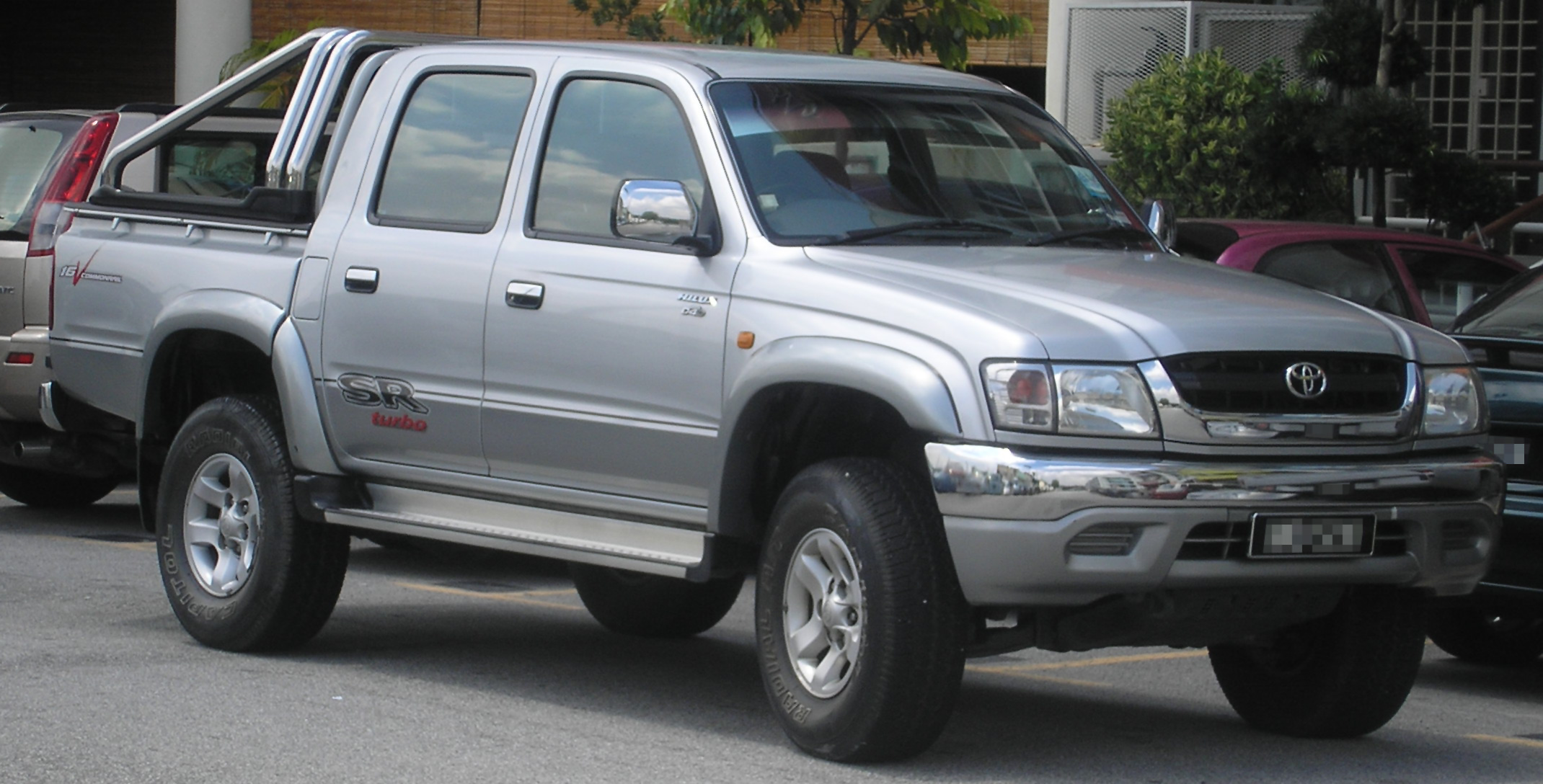 Front quarter view of a sixth generation, first facelift Toyota Hilux, in Serdang, Selangor, Malaysia.